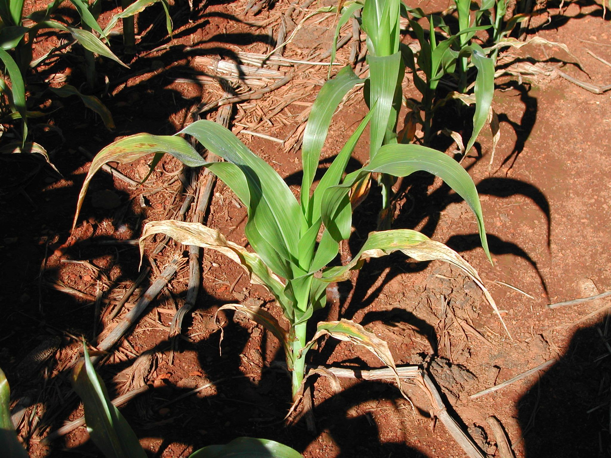 A maize plant showing symptoms of severe potassium deficiency; growing on a highly-weathered kaolinitic soil in on Cedara research farm, KwaZulu-Natal. Such severe symptoms (and very low maize yields) are often associated with exchangeable-K concentrations of less than 50 mg/kg soil. Symptoms are necrosis (tissue death) of tips and margins of the older leaves, along with some chlorosis (yellowing). Reference: Farina, M.P.W., Channon, P., Thibaud, G.R. and Phipson, J.D., 1992. Soil and plant potassium optima for maize on a kaolinitic clay soil. South African Journal of Plant and Soil, 9(4), pp.193-200. File Name : DSCN0834.JPG File Size : 692.4KB (709004 Bytes) Date Taken : 2003/01/13 08:04:08 Image Size : 2048 x 1536 pixels Resolution : 300 x 300 dpi Bit Depth : 8 bits/channel Protection Attribute : Off Hide Attribute : Off Camera ID : N/A Camera : E885 Quality Mode : NORMAL Metering Mode : Matrix Exposure Mode : Programmed Auto Speed Light : No Focal Length : 15.3 mm Shutter Speed : 1/470.3 second Aperture : F3.8 Exposure Compensation : 0 EV White Balance : Auto Lens : Built-in Flash Sync Mode : Normal Exposure Difference : N/A Flexible Program : N/A Sensitivity : Auto Sharpening : Auto Image Type : Color Color Mode : N/A Hue Adjustment : N/A Saturation Control : Normal Tone Compensation : Auto Latitude(GPS) : N/A Longitude(GPS) : N/A Altitude(GPS) : N/A